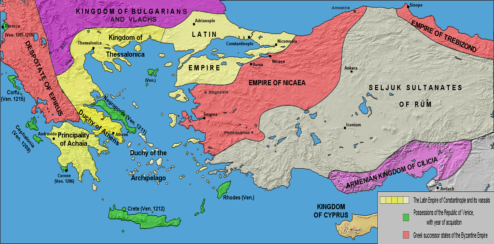 The borders of the Latin Empire and Byzantine Empire after the 4th crusade (1204) up to the Treaty of Nymphaeum in 1214. Borders are approximate.